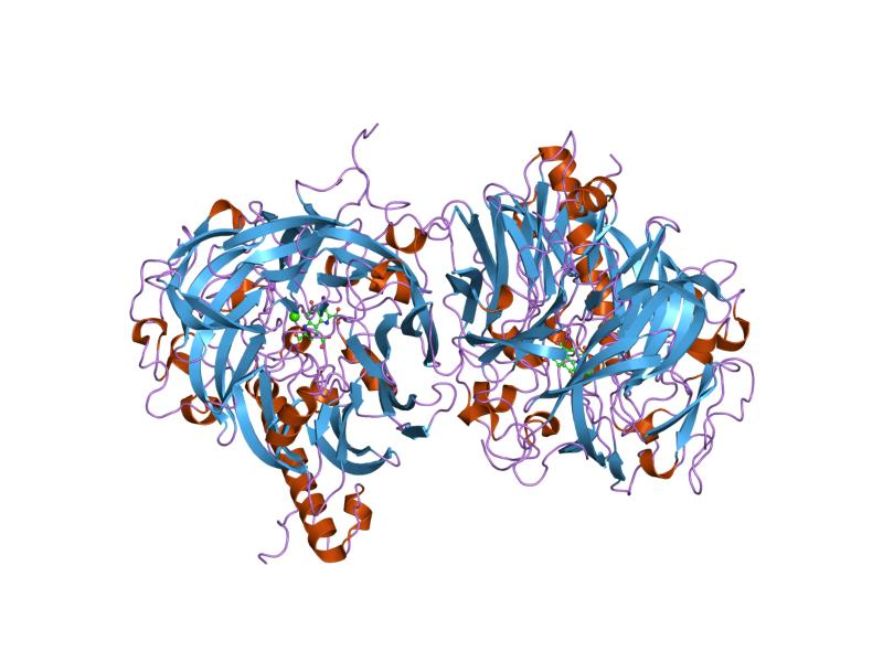 Cartoon representation of the molecular structure of protein registered with 1lrw code.